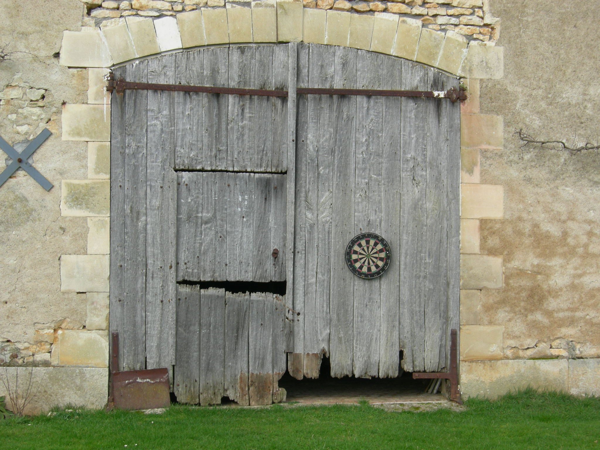 EntrainsAtelier, 2007